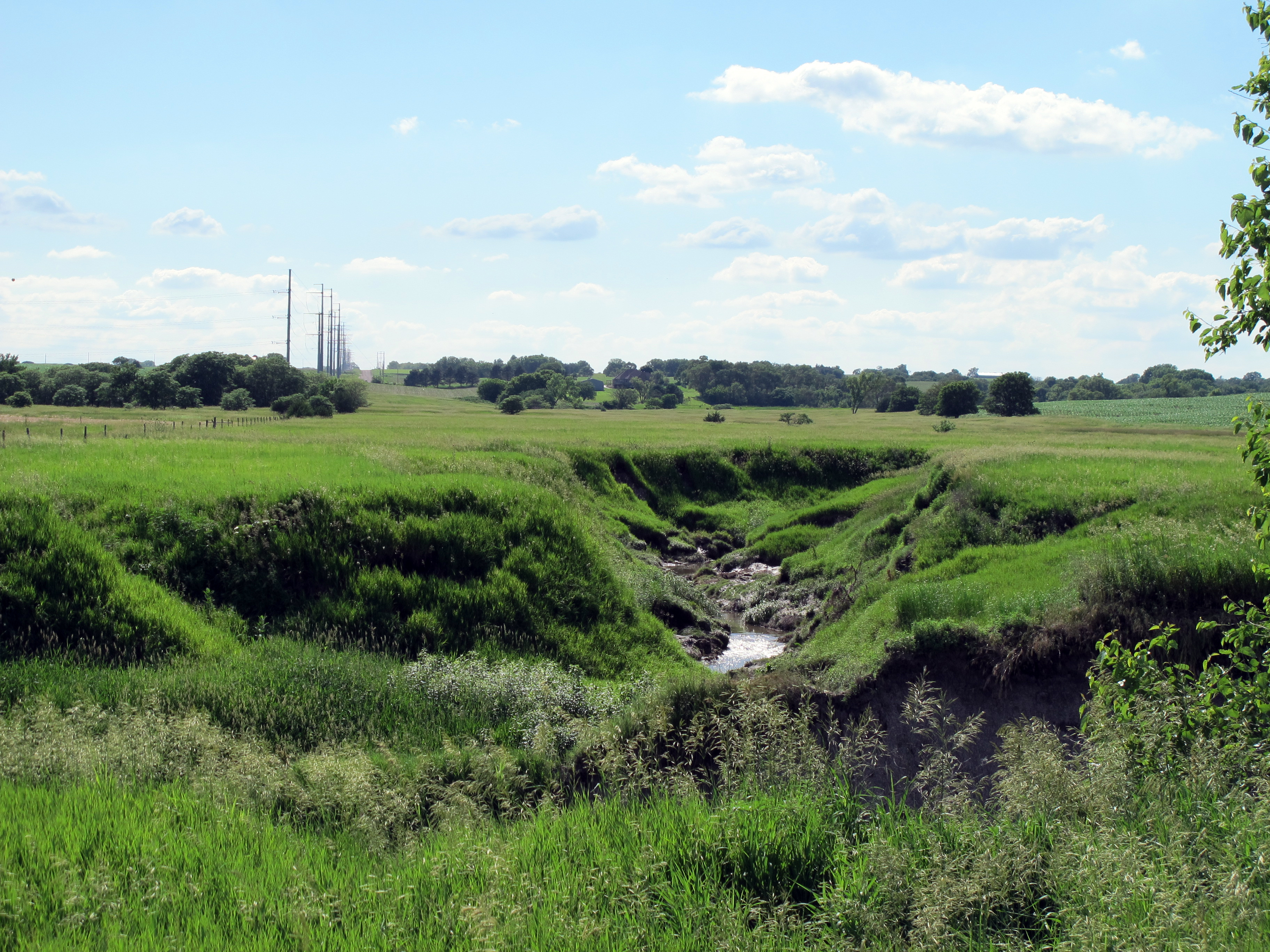 Photo of Little Salt Creek (right-to-left in foreground), one if it's tributaries (right of near-center) and salt marshes (surrounding tributary) near Lincoln, Nebraska. Photo taken .5 miles north of Arbor Road (and Lincoln's city limits) on N. 27th Street (west side), looking nearly due west.